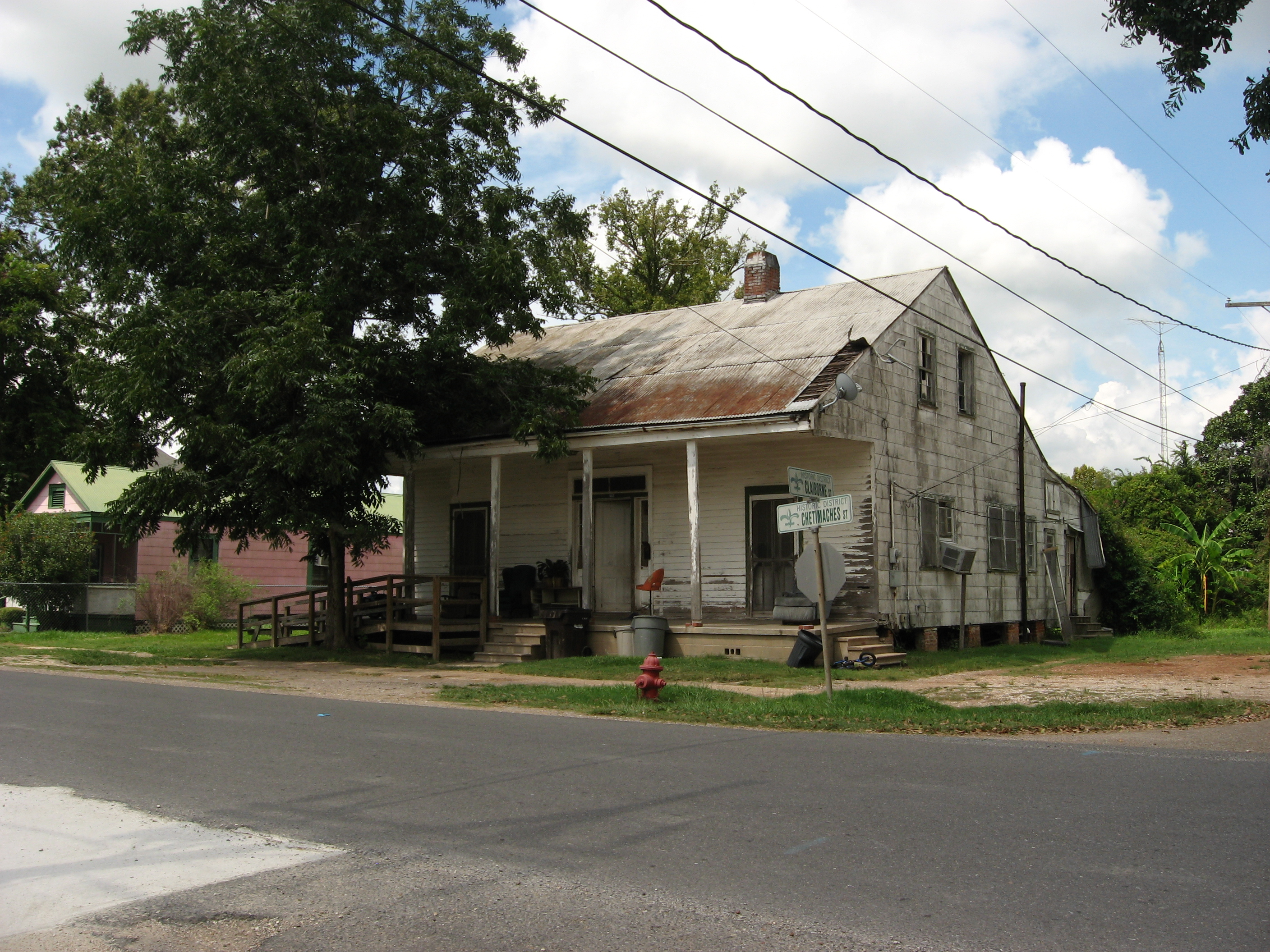 Old "Creole Cottage" style house, Donaldsonville, Louisiana.